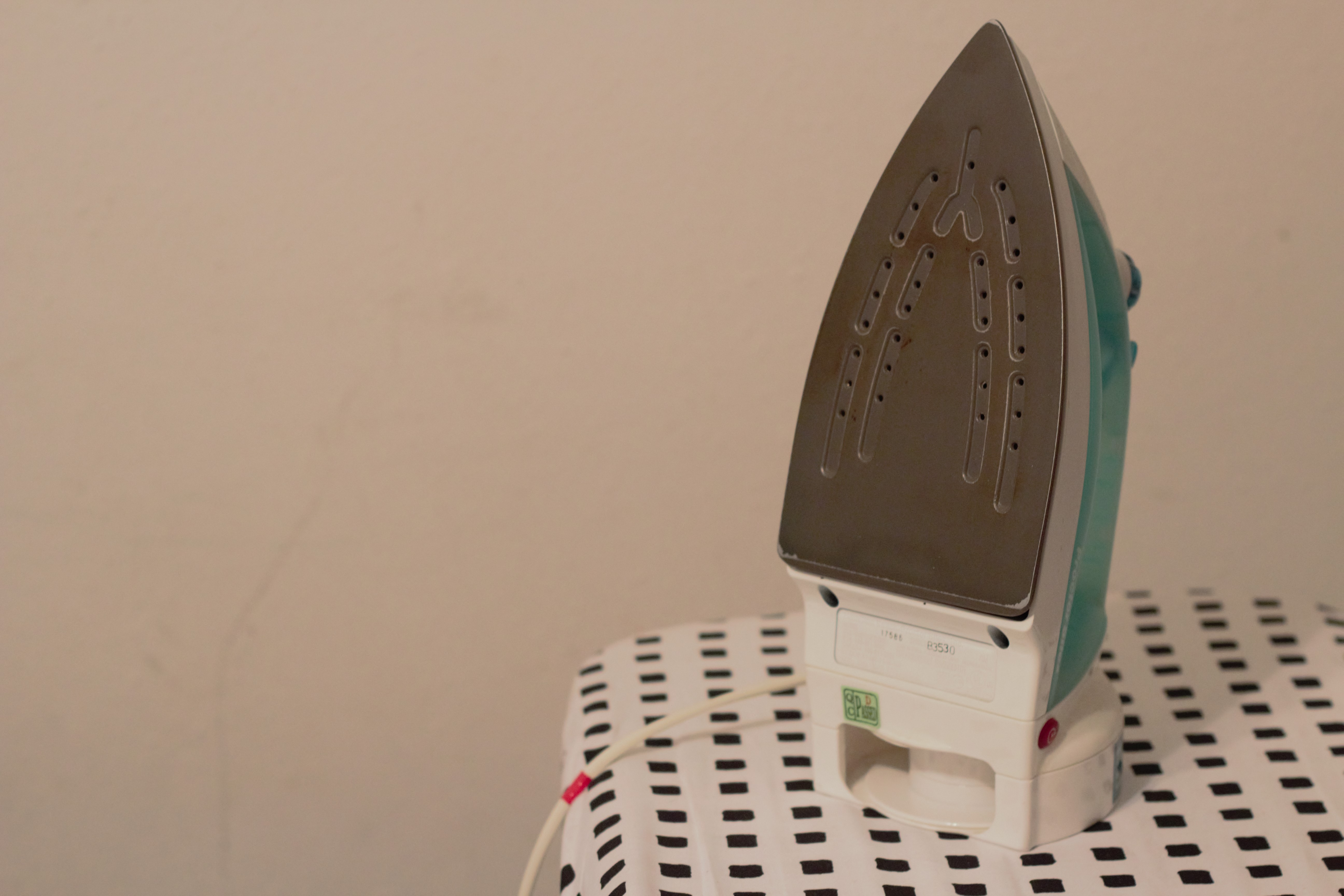 Clothes iron on ironing board.